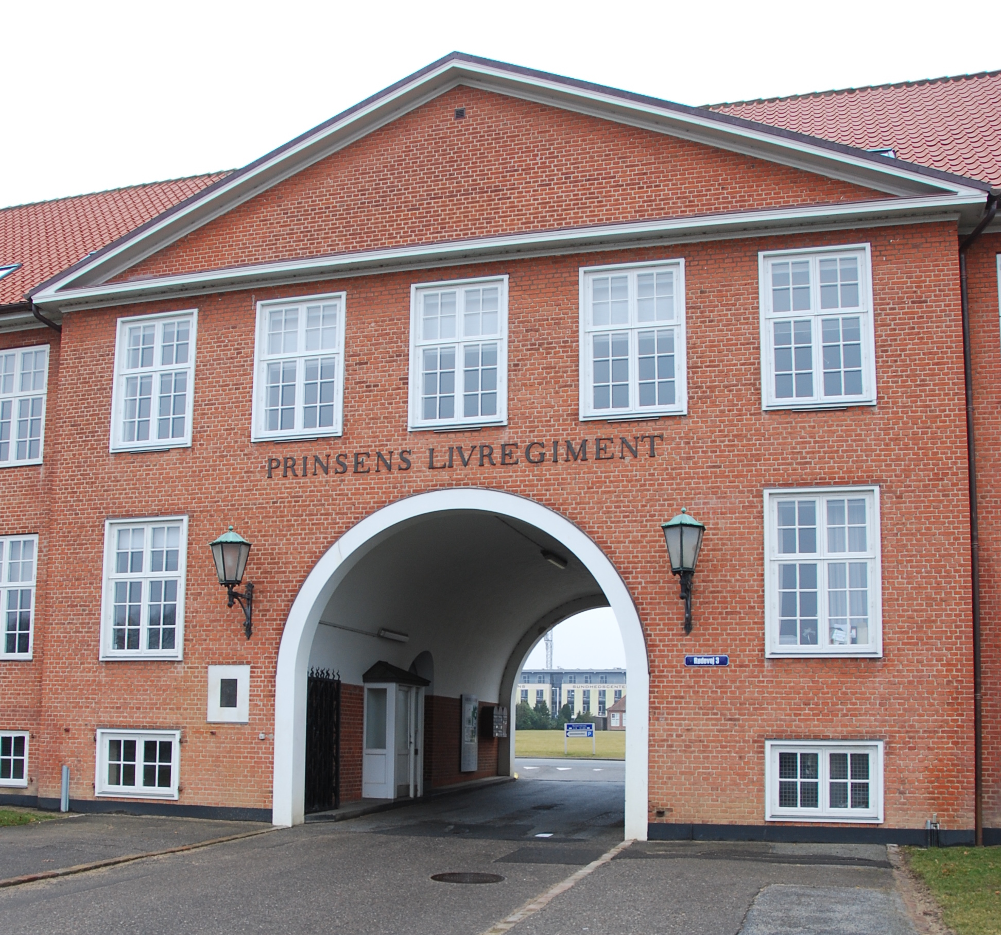 Former HQ for Prinsens Livregiment.